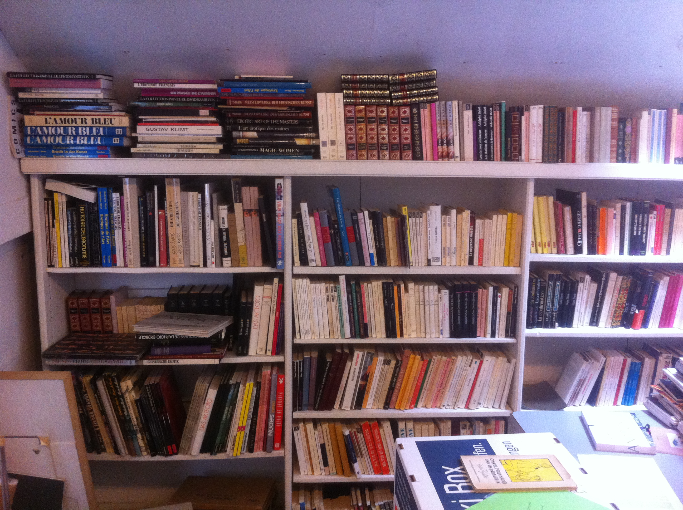 Livres FINALE